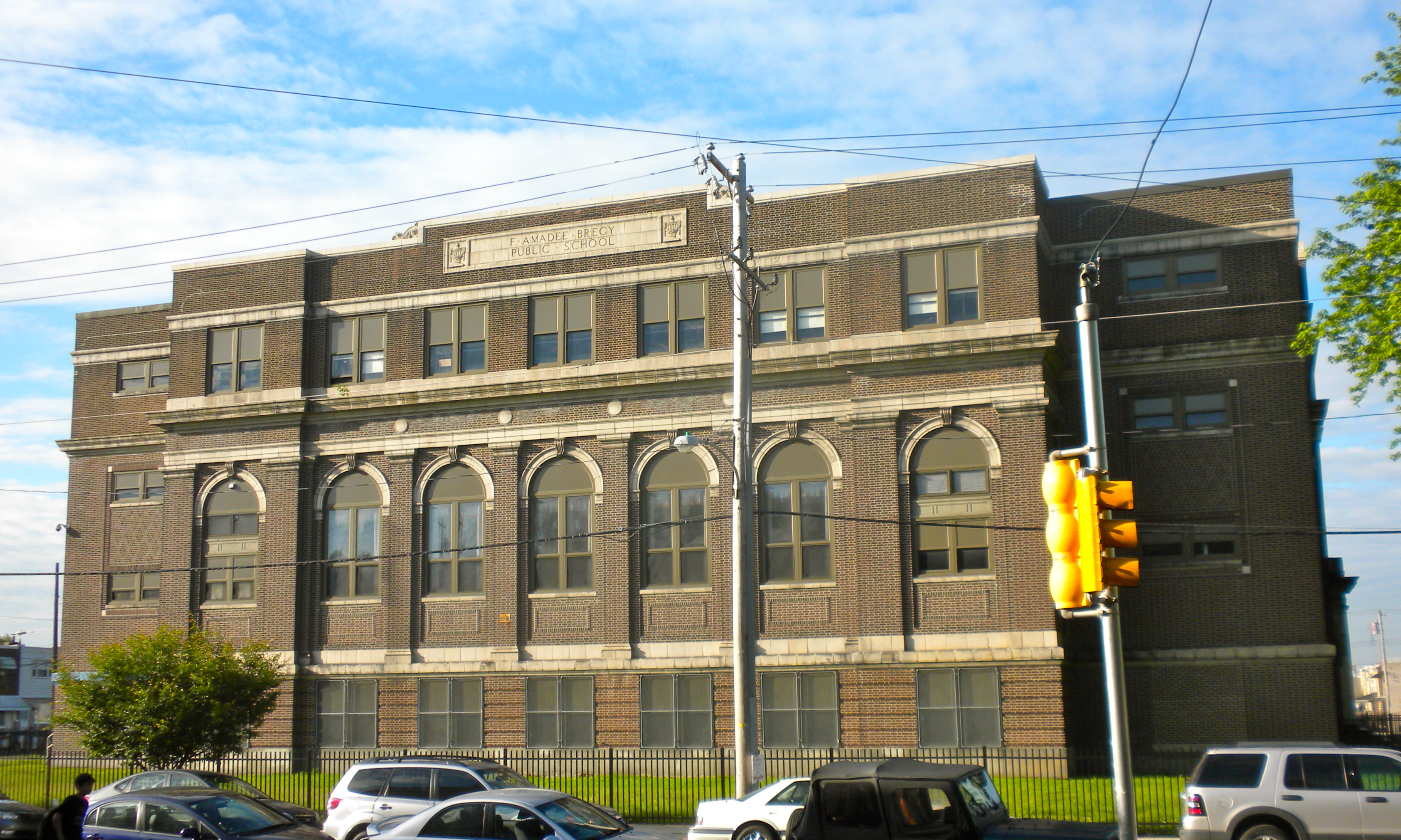 F. Amadee Bregy School on the NRHP since November 18, 1988. At 1700 Bigler Street in the South Philly neighborhood of Marconi Plaza, in Philadelphia, PA